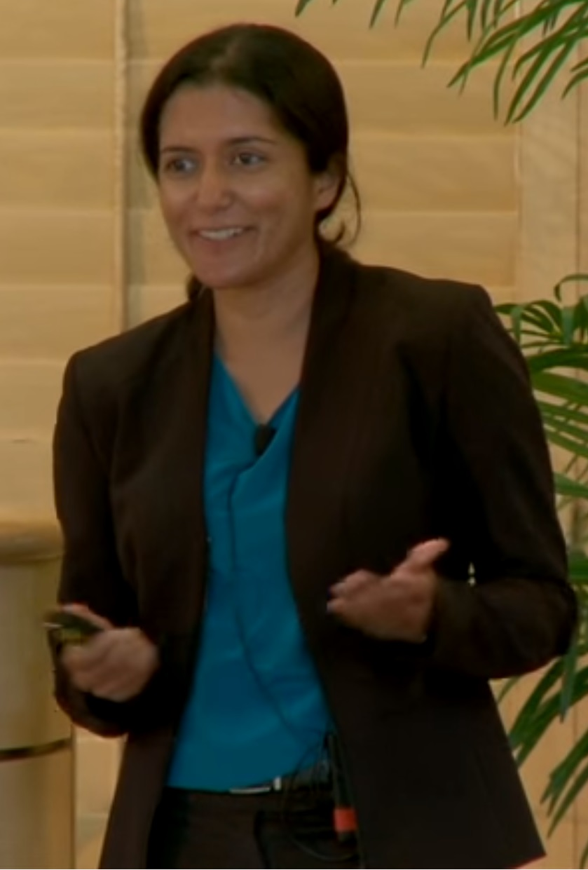 "Hybrid Perovskite Solar-Cell Absorbers" Hemamala Karunadasa, assistant professor of chemistry, Stanford GCEP Symposium - October 15, 2014 Global Climate and Energy Project